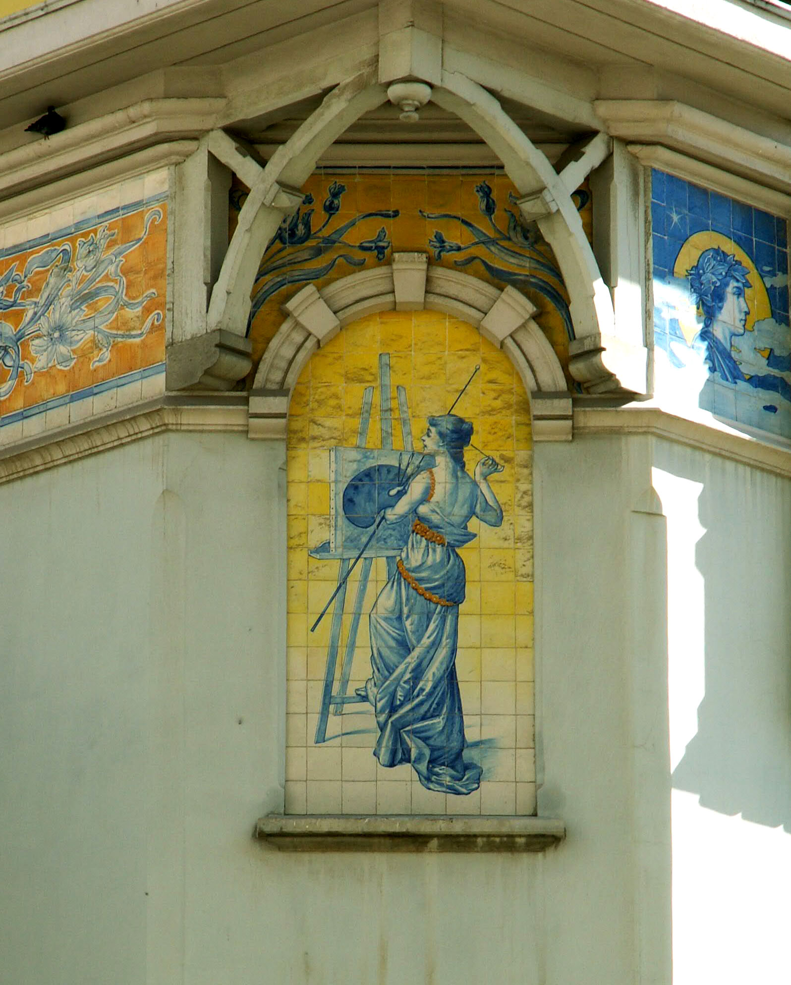 This file was uploaded for Wiki Loves Monuments in Portugal with the unique identifier 72353.